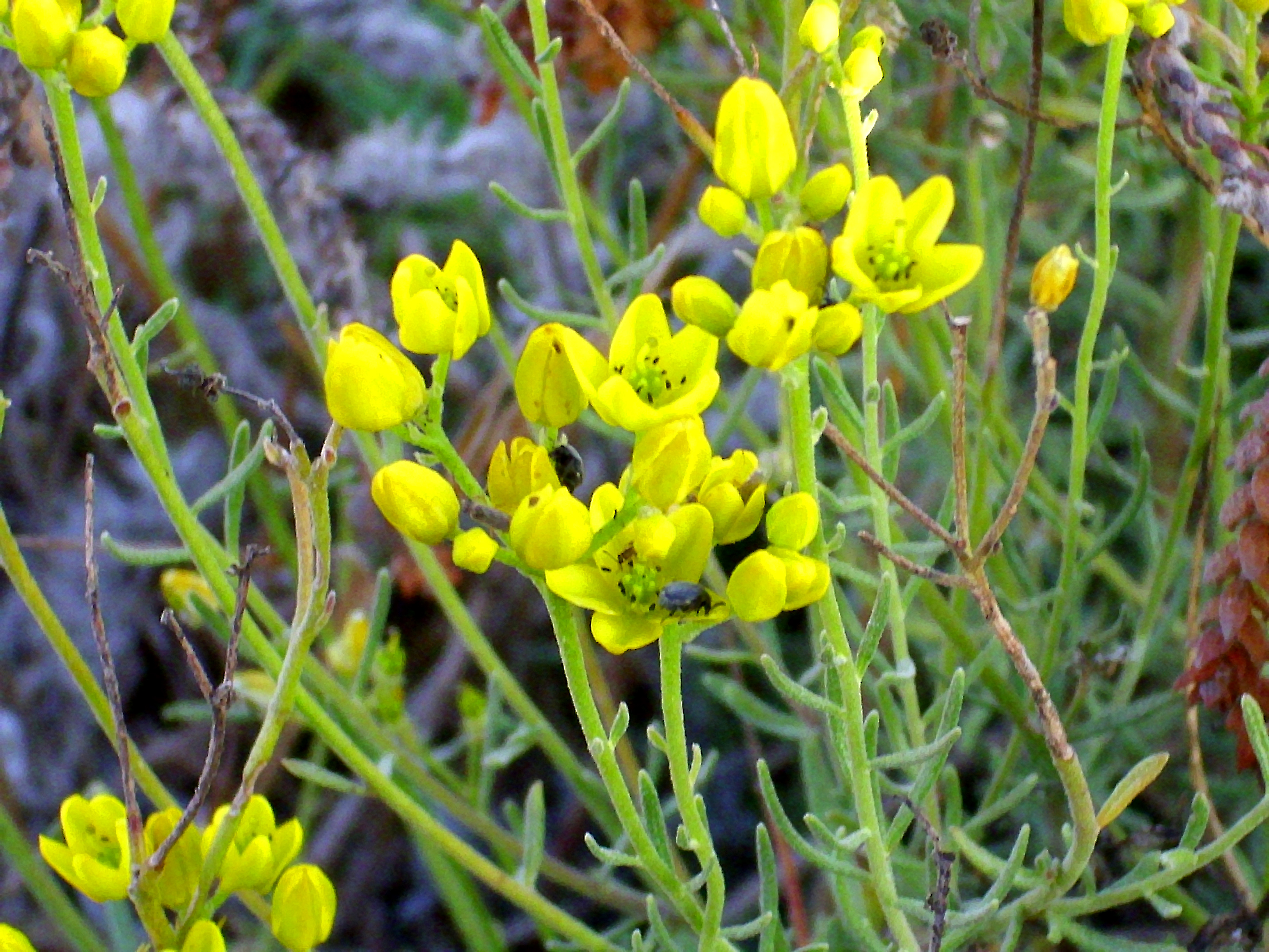 Haplophyllum linifolium subsp. rosmarinifolium flowers, La Mata, Torrevieja, Alicante, Spain.